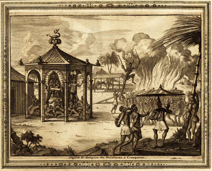 Hindu temple at Cranganore from La galerie agreable du monde (...). Tome premier des Indes Orientales.', published by P. van der Aa, Leyden, c. 1725